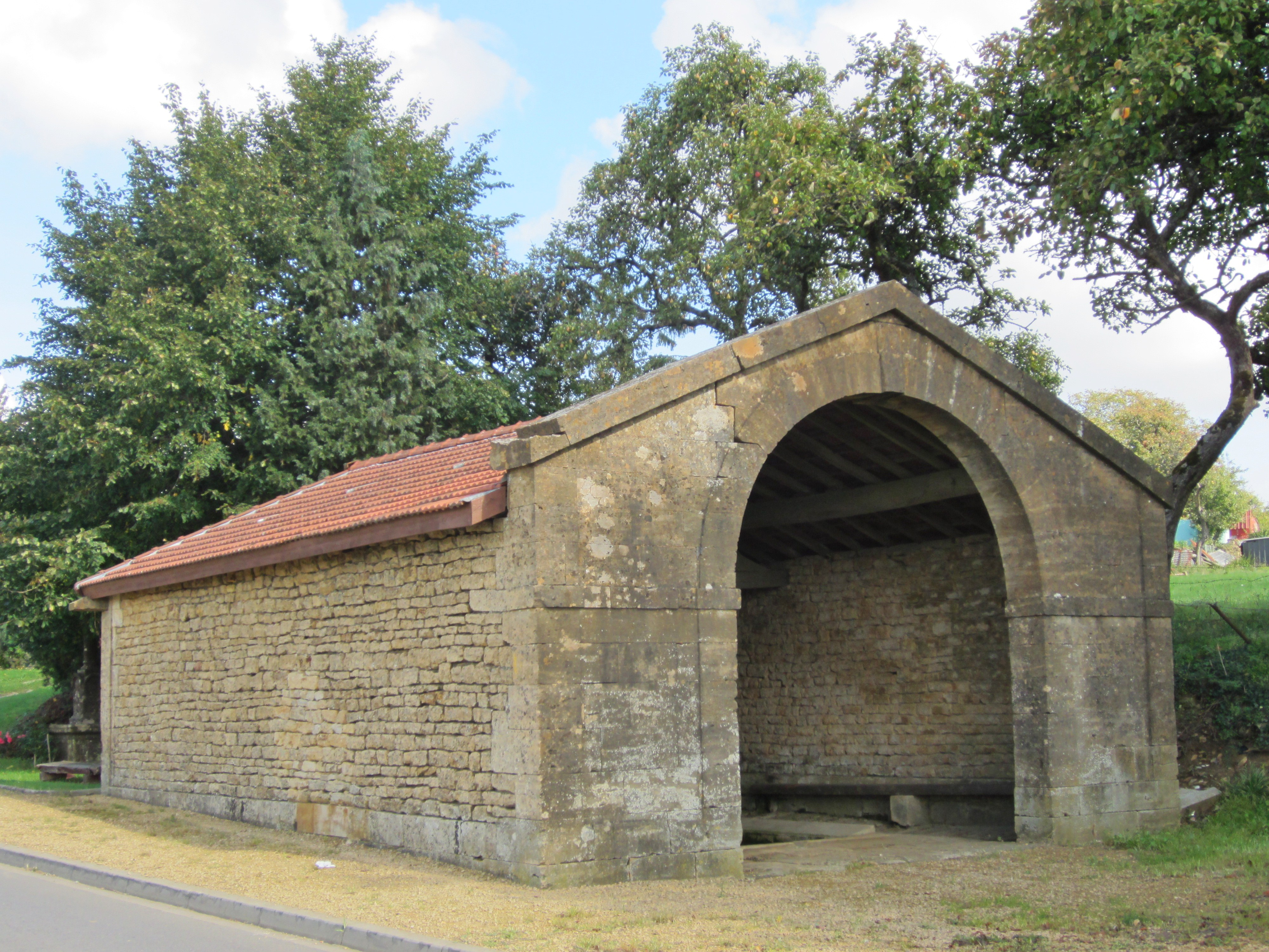 Description lavoir Laix Date24 September 2011Sourcemon appareil photoAuthorAimelaimePermission (Reusing this file) lavoir Laix